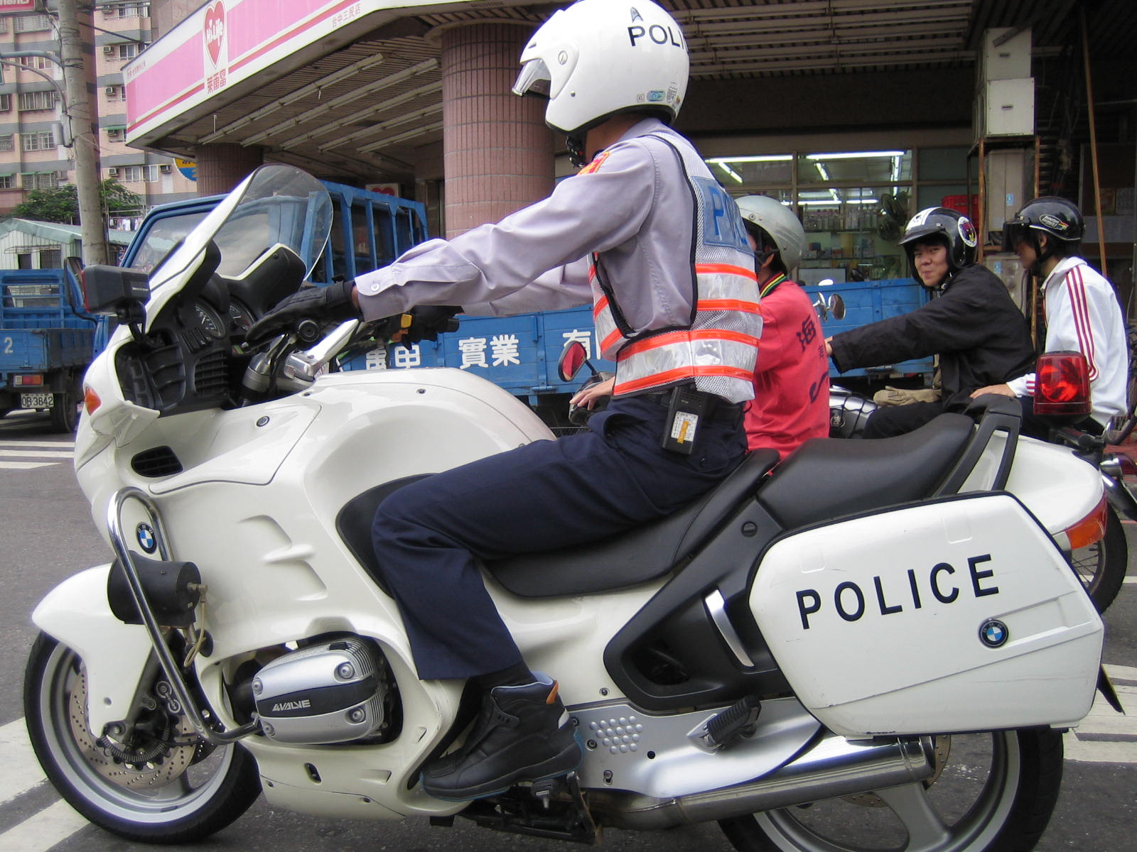 Taiwan Police on BMW motorcycle!... wah!!